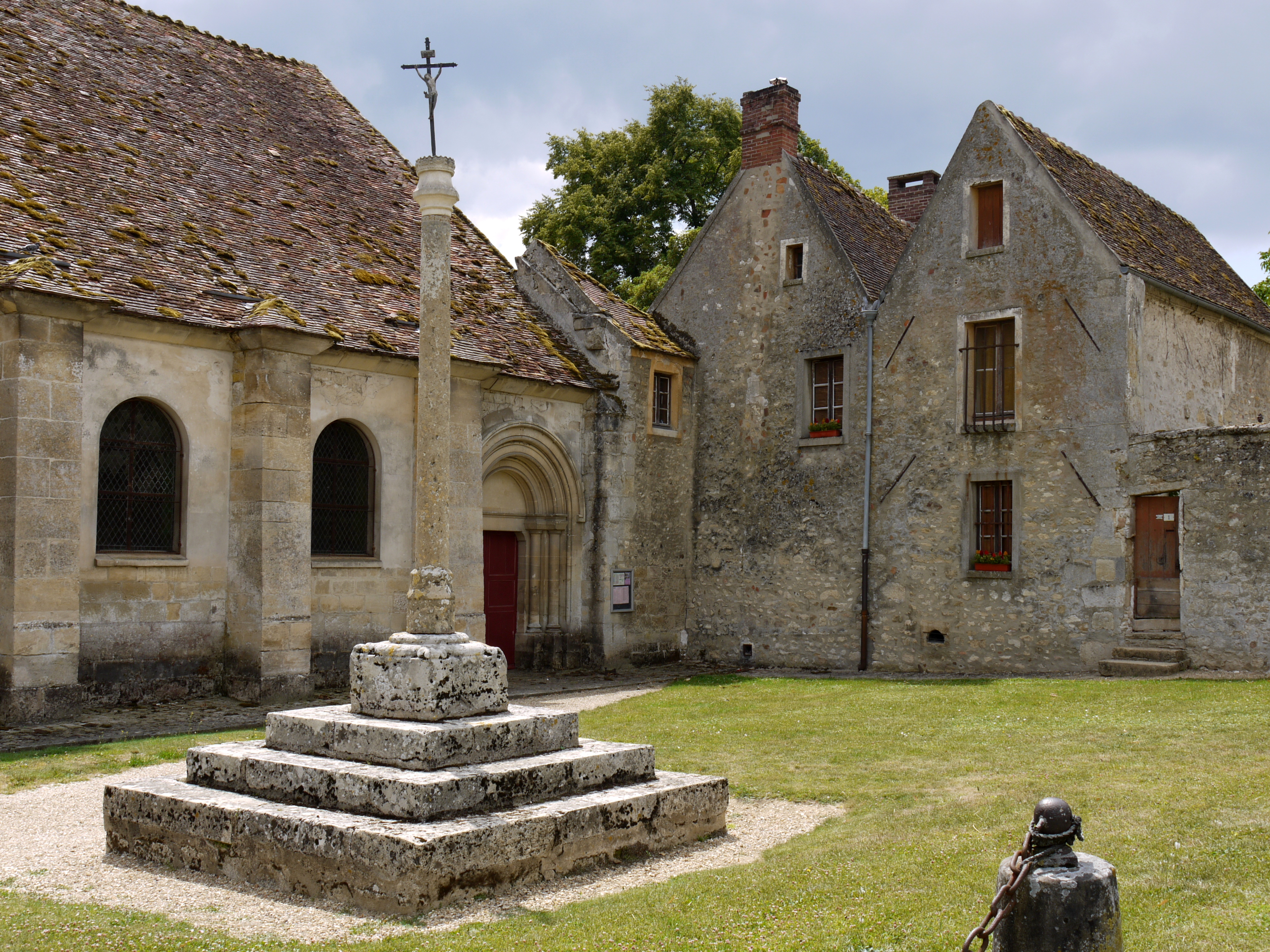 Church of Themericourt and old cross of cemetery